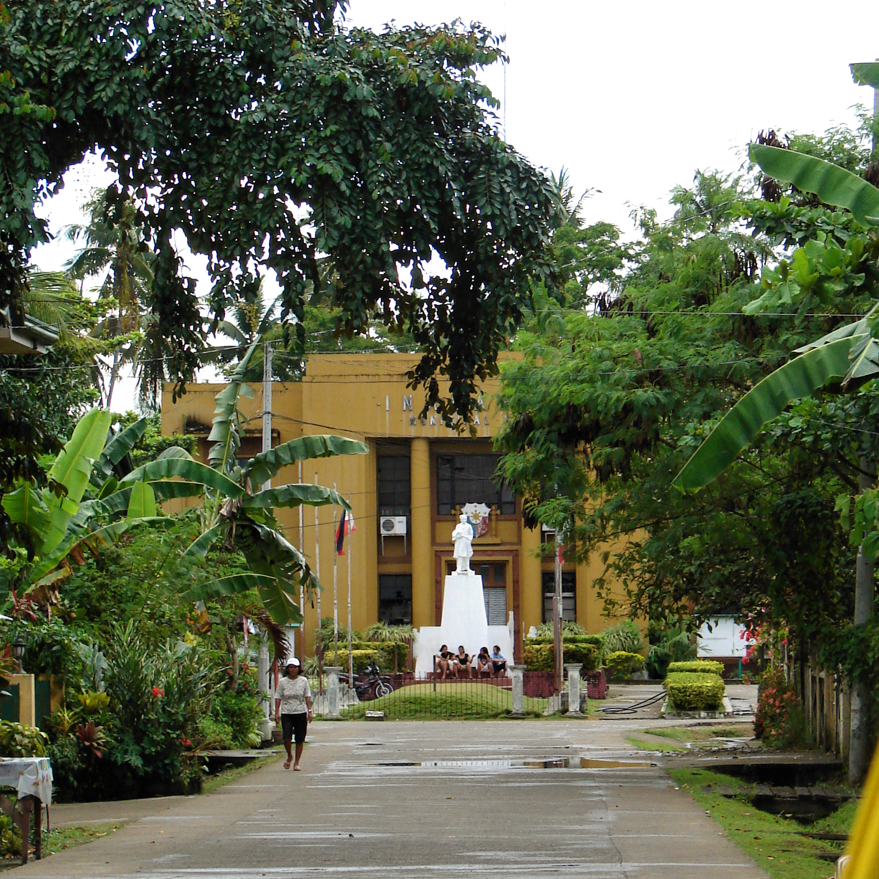 Municipal Hall of Inabanga, Bohol, Philippines